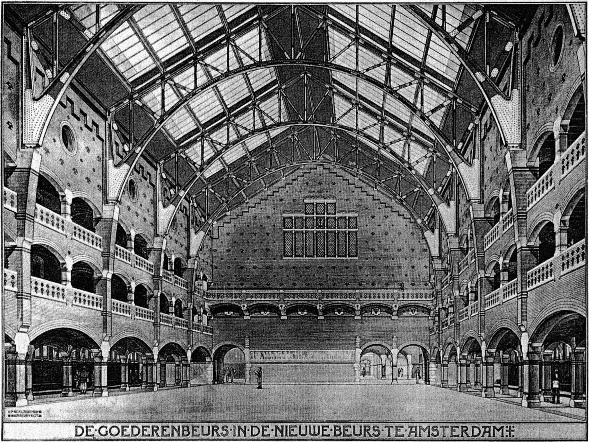 Stock Exchange, Amsterdam, interior, perspective drawing.